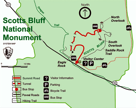 Map of Scotts Bluff National Monument, Nebraska